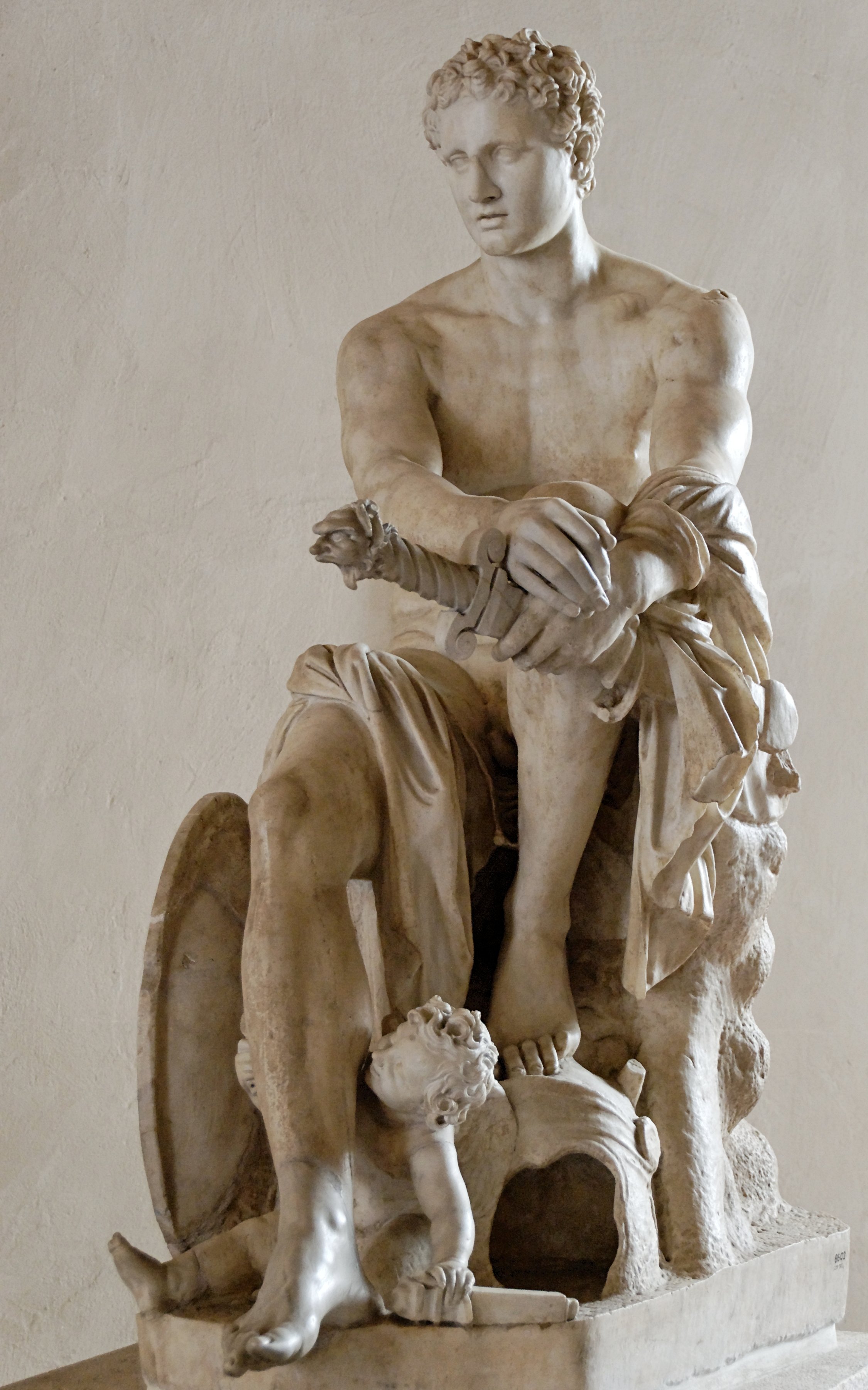 So-called “Ludovisi Ares”. Pentelic marble, Roman copy after a Greek original from ca. 320 BC. Some restorations in Cararra marble by Gianlorenzo Bernini, 1622.